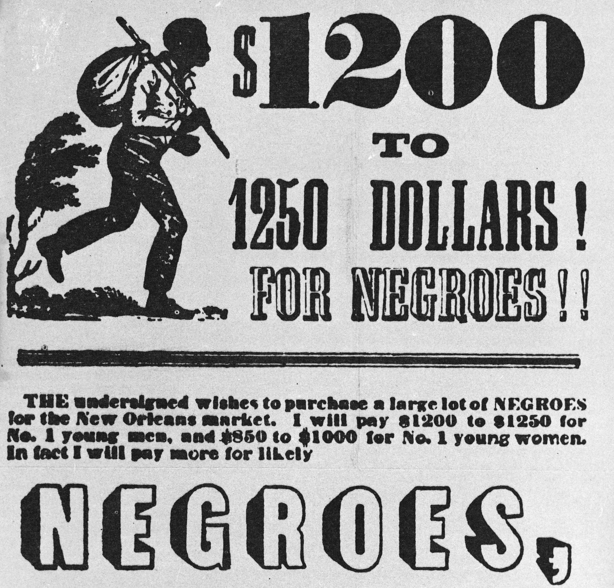 Advertisement posted by slave trader William F. Talbott of Lexington, Kentucky, in 1853. Text reads: "$1200 TO 1250 DOLLARS! FOR NEGROES!! / THE undersigned wishes to purchase a large lot of NEGROES for the New Orleans market. I will pay $1200 to $1250 for No. 1 young men, and $850 to $1000 for No. 1 young women. In fact I will pay more for likely NEGROES, [copy cuts off there]"